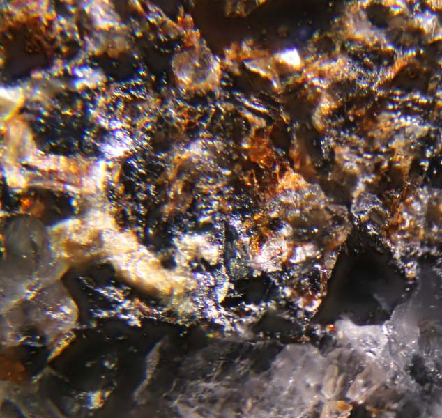 Orange crystals of the extremely rare and new mineral alpeite (IMA 2016-072), a Mn vanadate of complex formula, from the type locality (Monte Alpe Mine, Genova Province, Liguria, Italy) and only one of the two known localities worldwide.